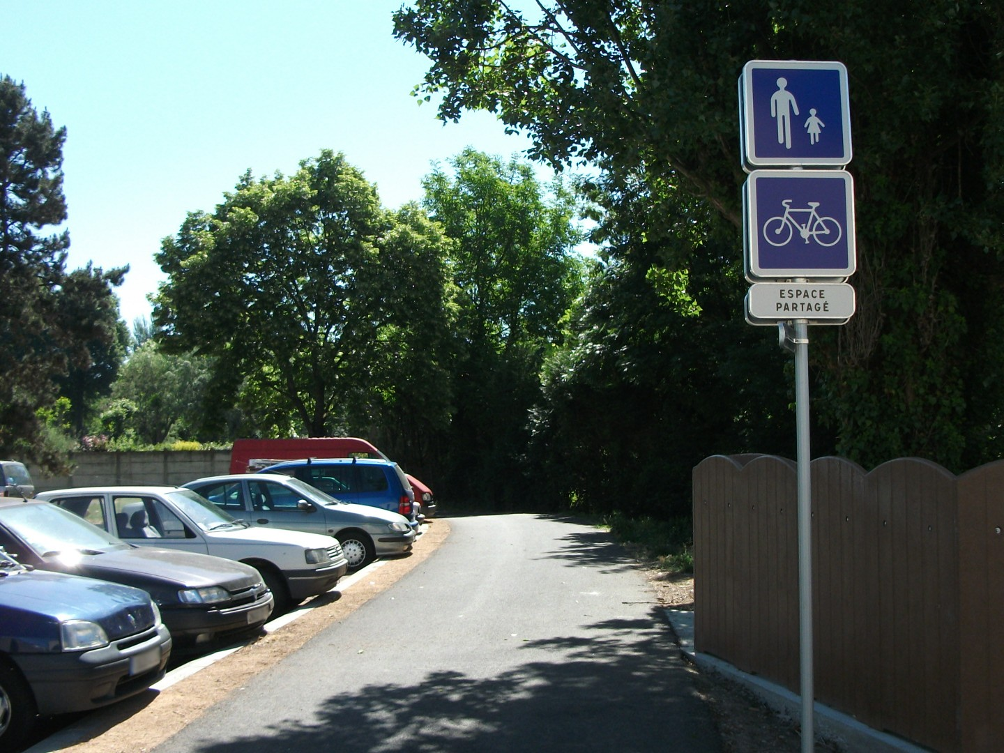 Entrance of a shared space, a path from Vichy to Stade Aquatique, long of ca. 2 kilometres (1.2 mi) and opened for foot and bicycle since mid 2010.